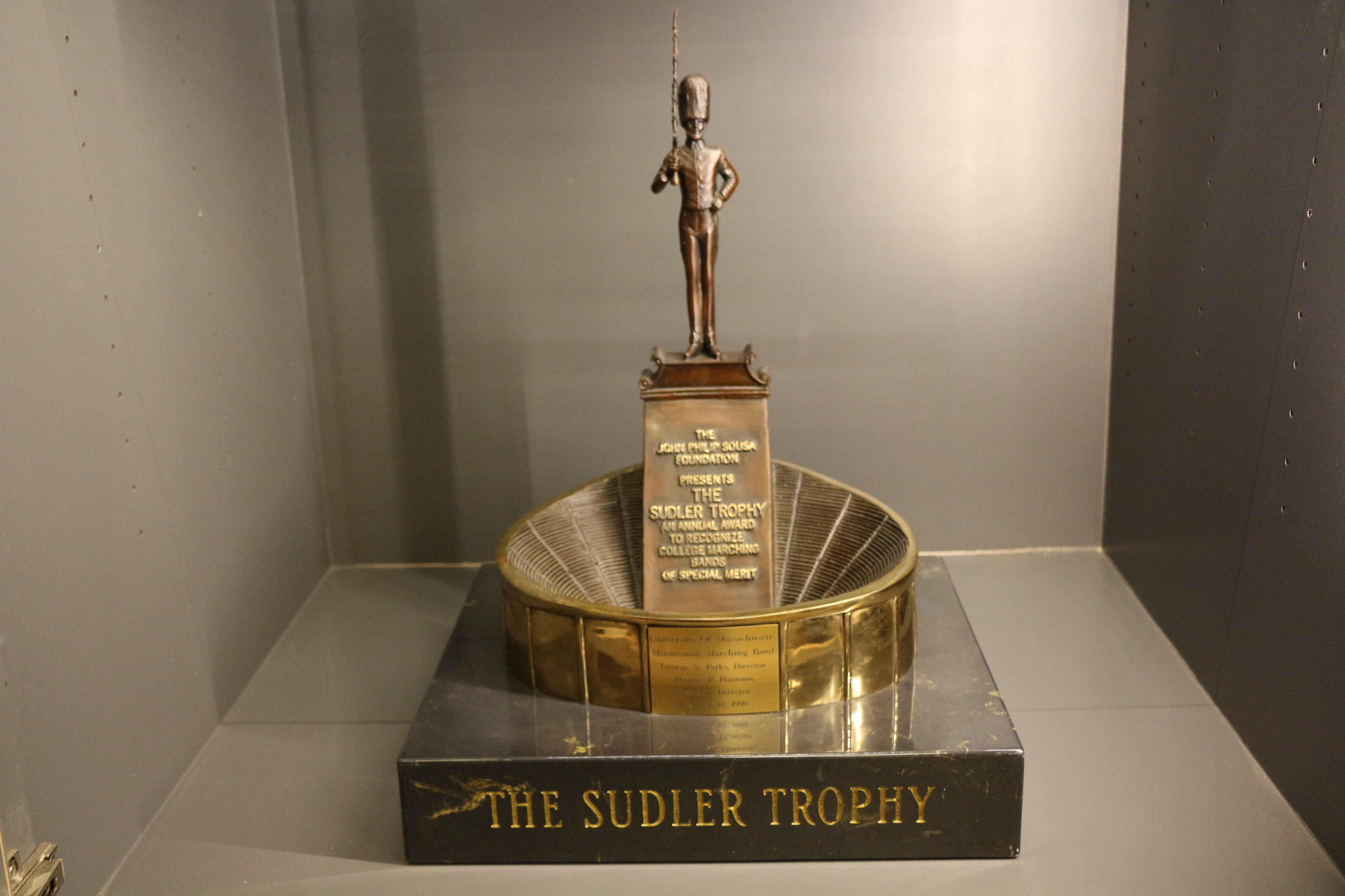 UMass Amherst's Sudler Trophy